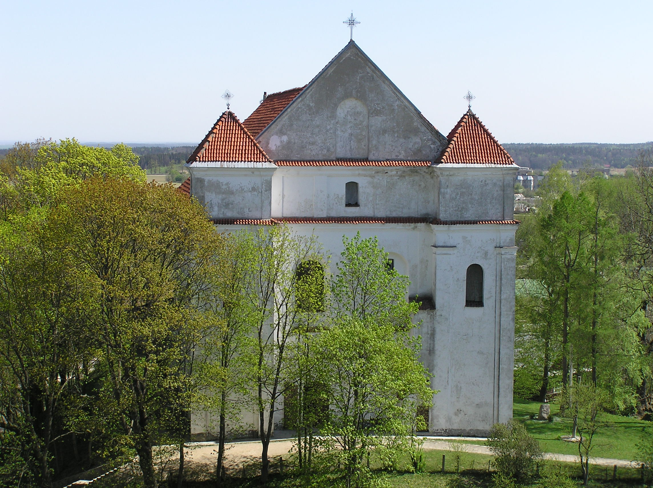 Parish Catholic Church in Navahradak